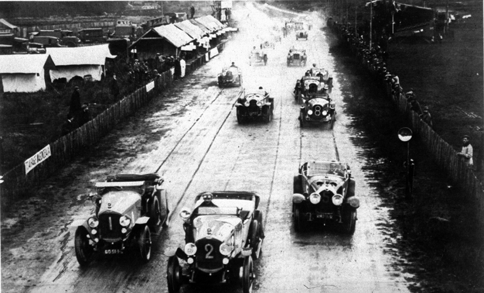 Car Endurance Race 1923, “24 Heures de Mans”